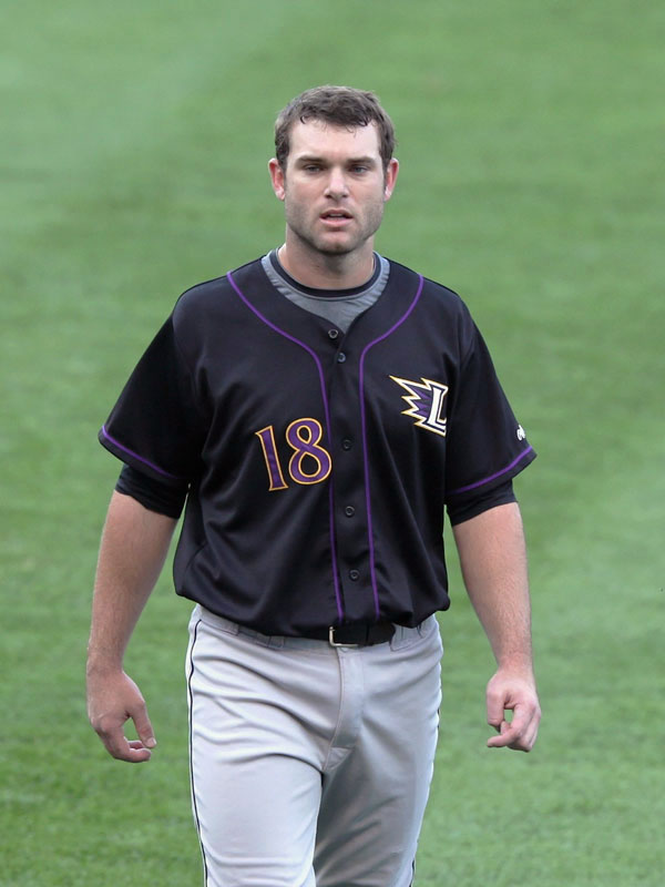 Wes Bankston, May 30, 2009, Scranton, PA. 22:35, 24 February 2010 . . BubbaFan . . 600×800 (61 KB)